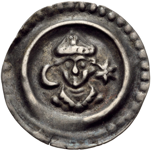 GERMANY, Konstanz (Bistum). Heinrich II von Klingenberg. Bischof, 1293-1306. AR Bracteate Pfennig (19 mm, 0.42 g). Bust facing, wearing miter, mozzetta, and pallium; crescent to left, star to right / Incuse of obverse. Cahn 69; Bonhoff 1815. Good VF, darkly toned.